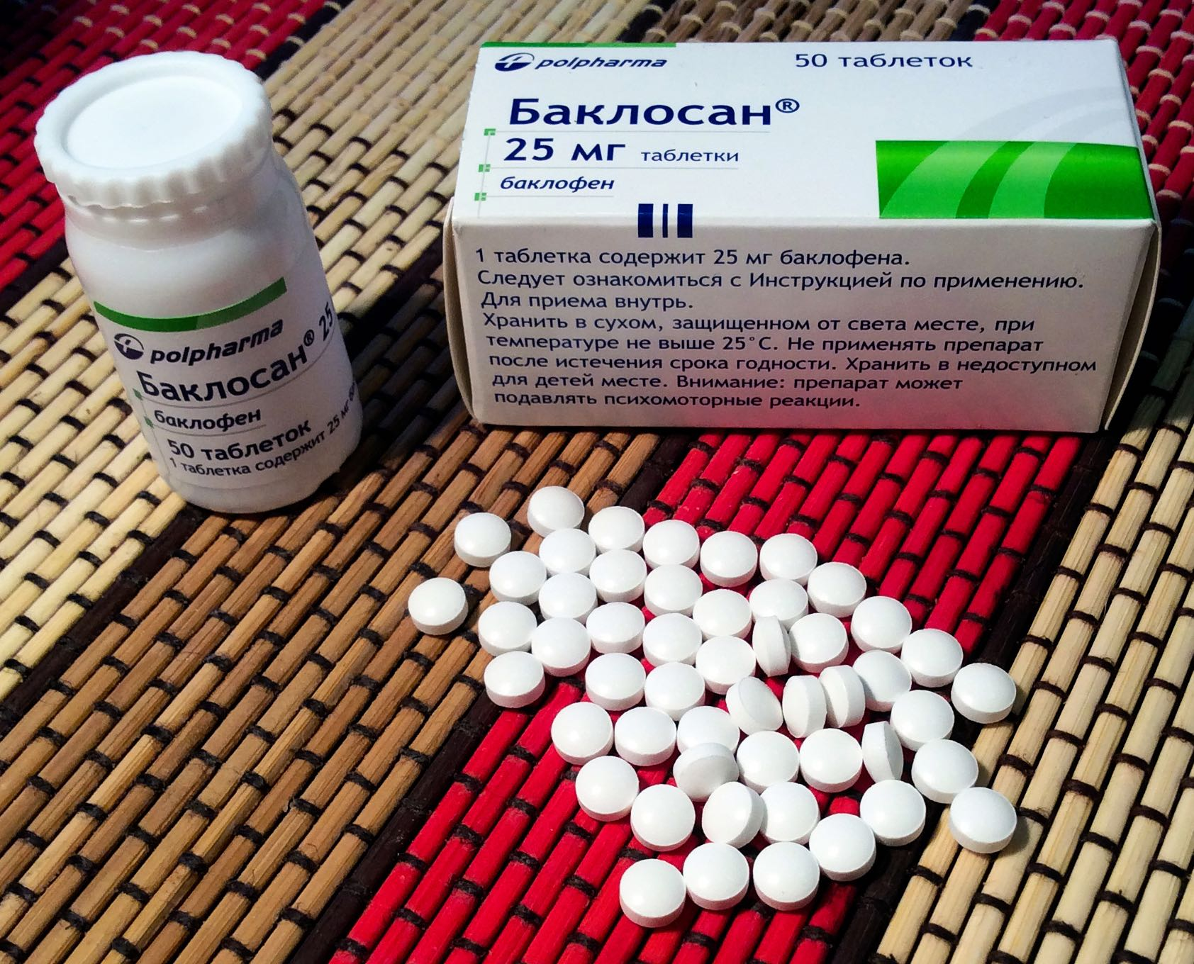 Russian version of Baclofen (INN; brand name Baclosan) 25 mg, polypropylene bottle of 50 pills — a GABABR-stimulating Muscle relaxant.